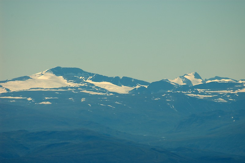 Glittertind (left) and Galdhøpiggen (right and Norway's highest mountain) seen from Rondeslottet (2,178 m) in Rondane, Norway.